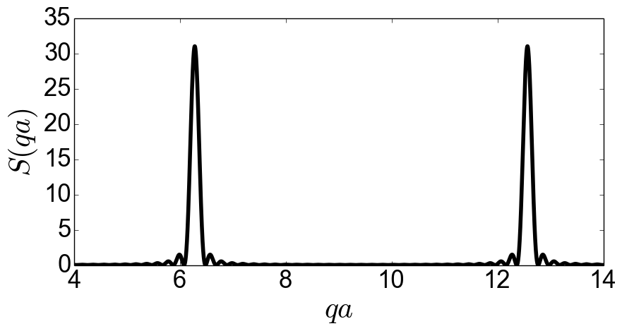 Structure factor aka scattering function in simple 1D case. For set of N = 31 planes with lattice constant a = 1. This is a simple 1D model of scattering of X-rays (or neutrons etc) from stack of planes in a crystal.